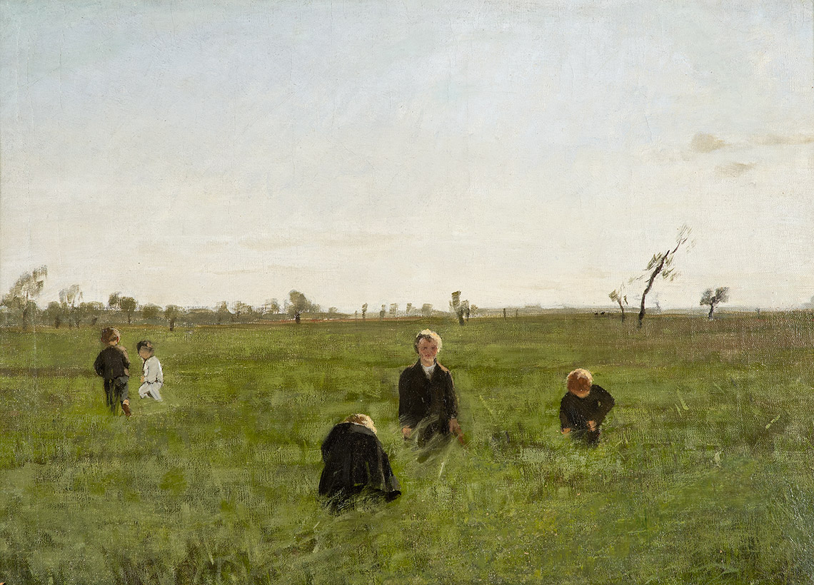 Anna Gerresheim, Children playing on a Lagoon Meadow, around 1895